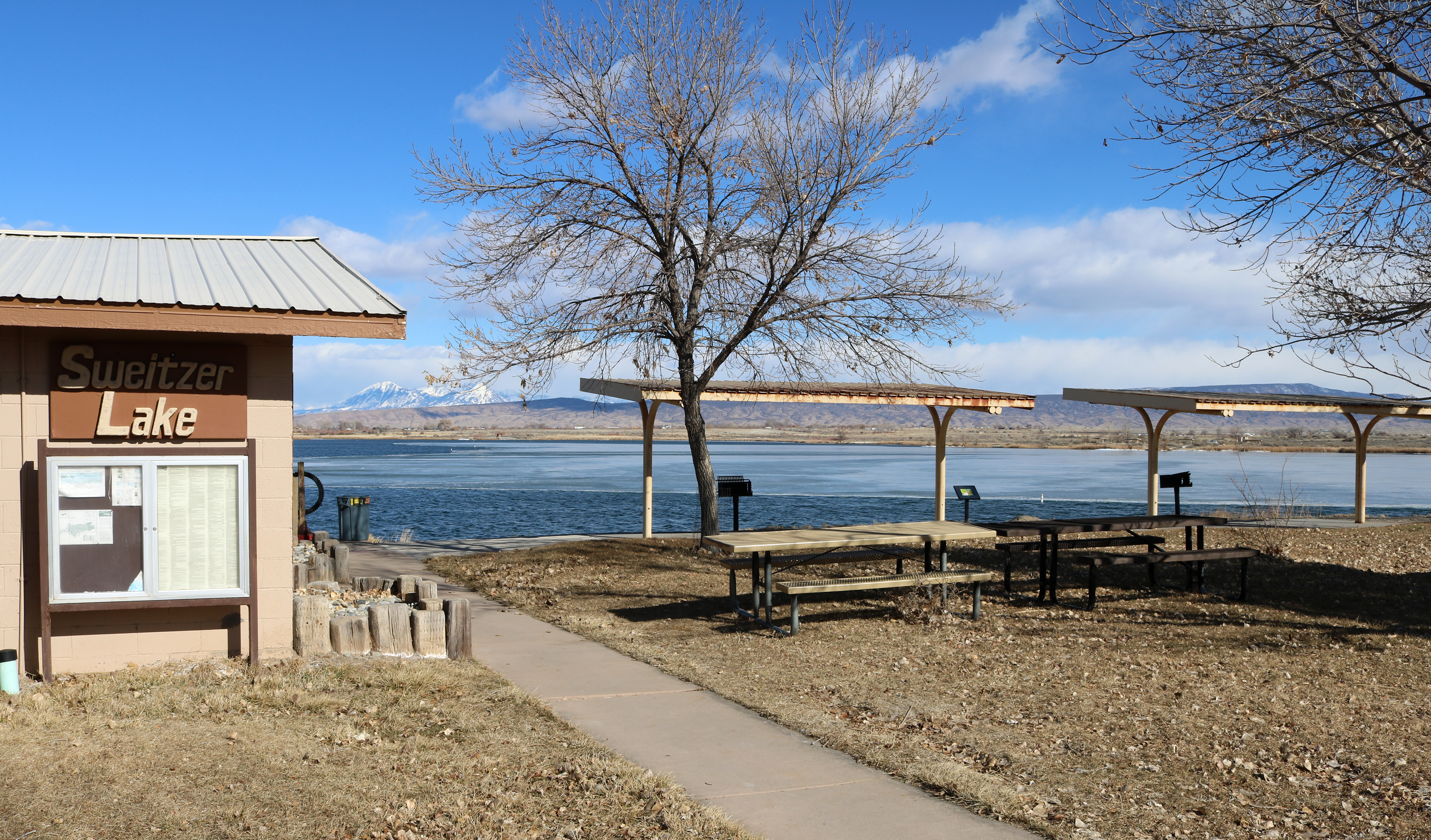 A view of Sweitzer Lake in Sweitzer Lake State Park, in Delta County, Colorado.